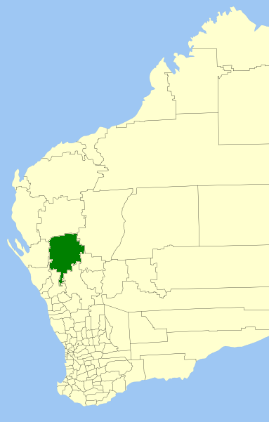 Location of the Local Government Area in Western Australia